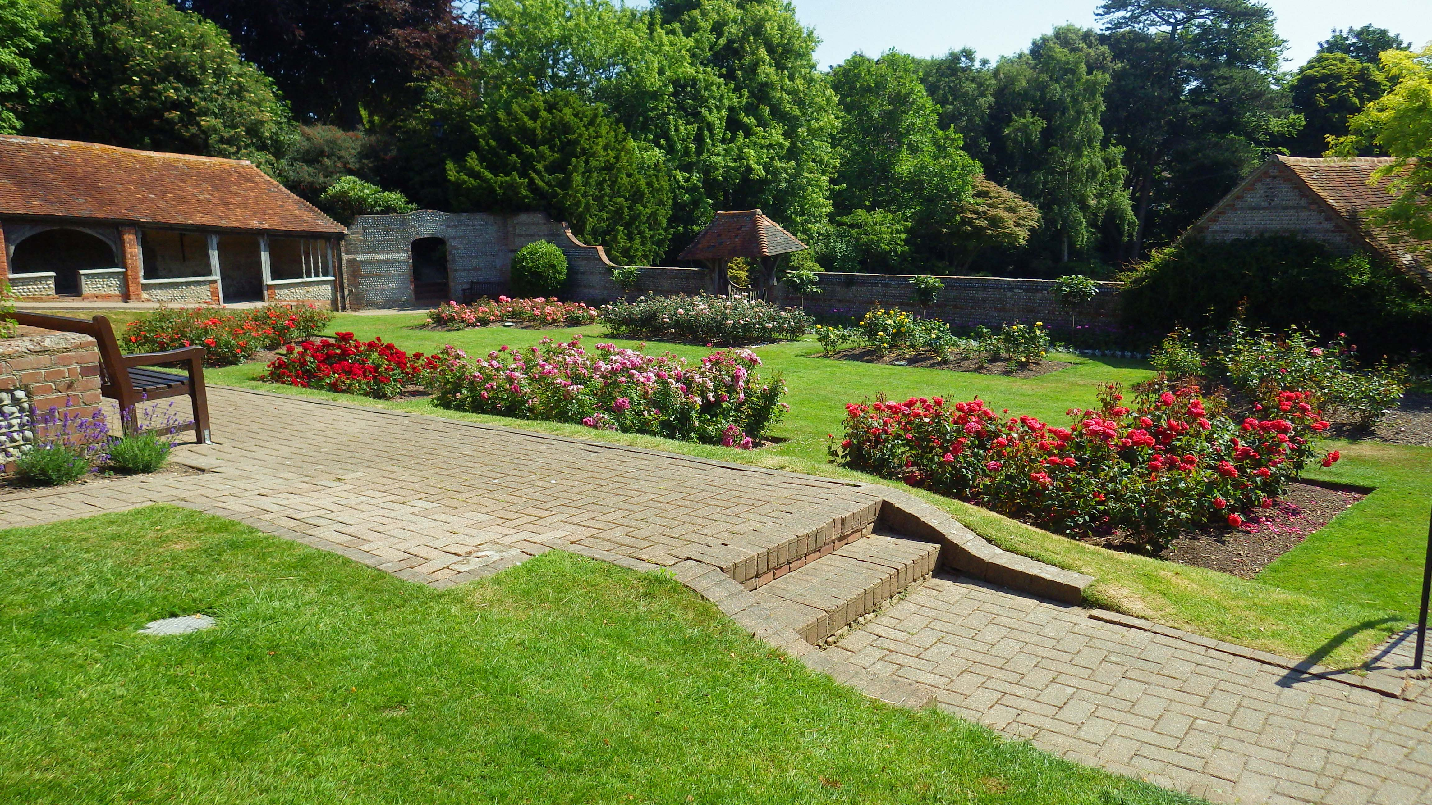 Gardens in summer outside Manor Barn, Manor Gardens, Old Town, Bexhill